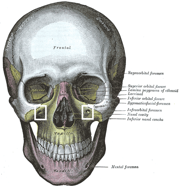 The skull from the front.